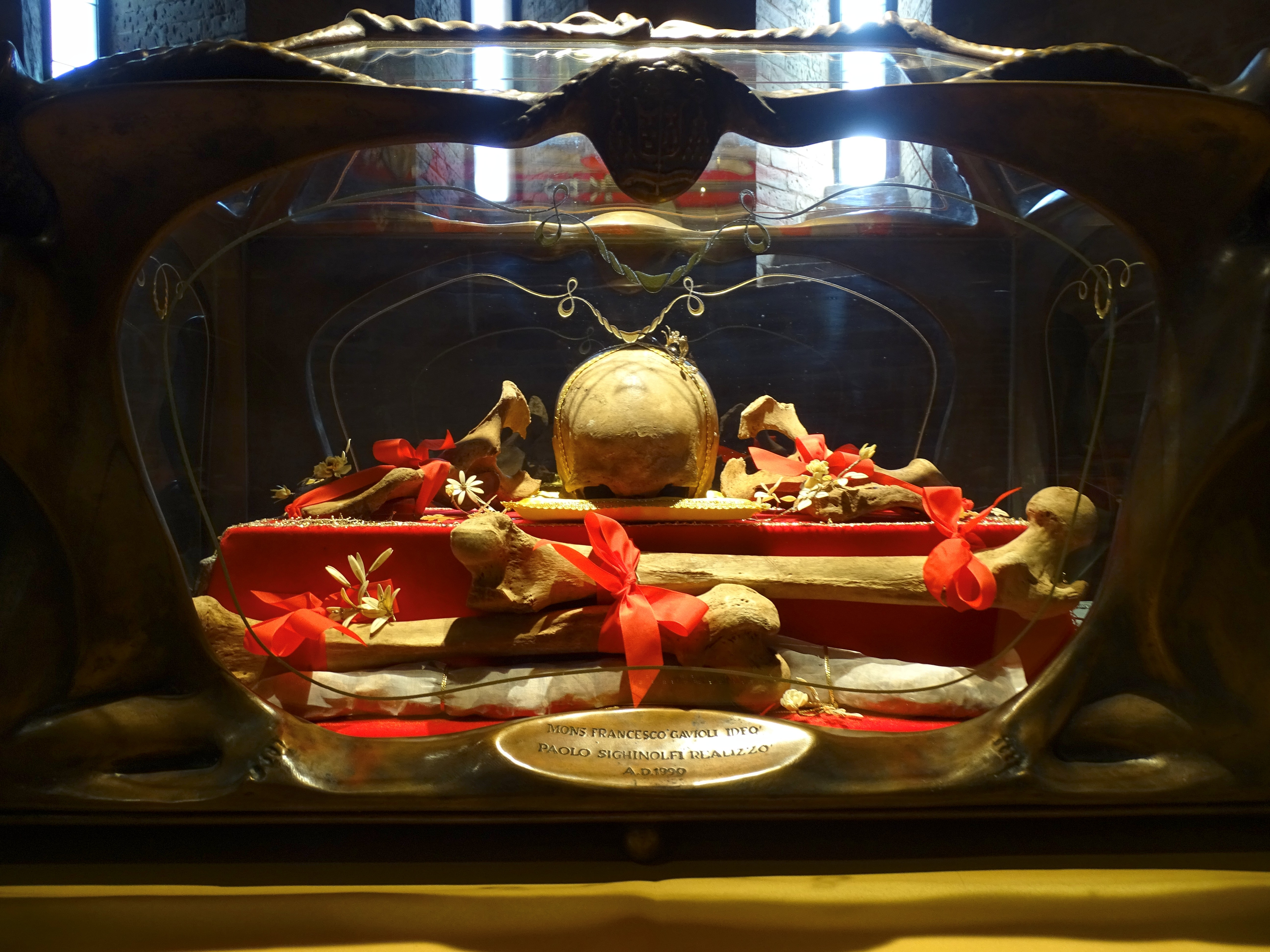 Relics of Saint Sylvester in the Abbey of Saint Sylvester in Nonantola. The Reliquary was made in 1990.